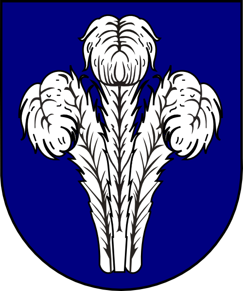 Coat of arms (shield only) of Péter cardinal Pázmány, archbishop of Esztergom, Hungary (1616 - 1637)